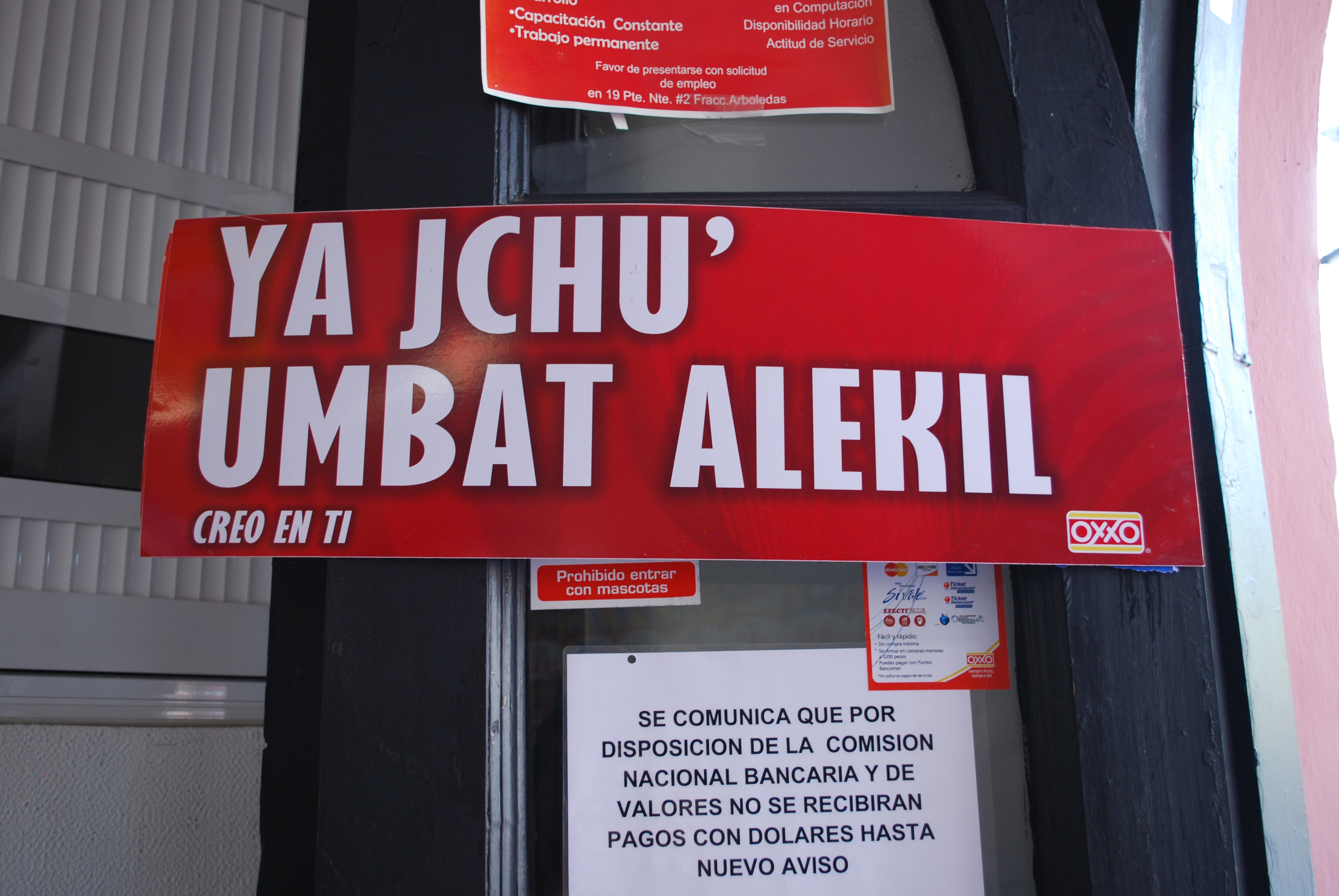 Sign on the door of an Oxxo convenience store with Tzeltal meaning "I believe in you" (part of a general campaign ad in Mexico which reads "Creo en ti" in Spanish) In San Cristobal de las Casas, Chiapas, Mexico